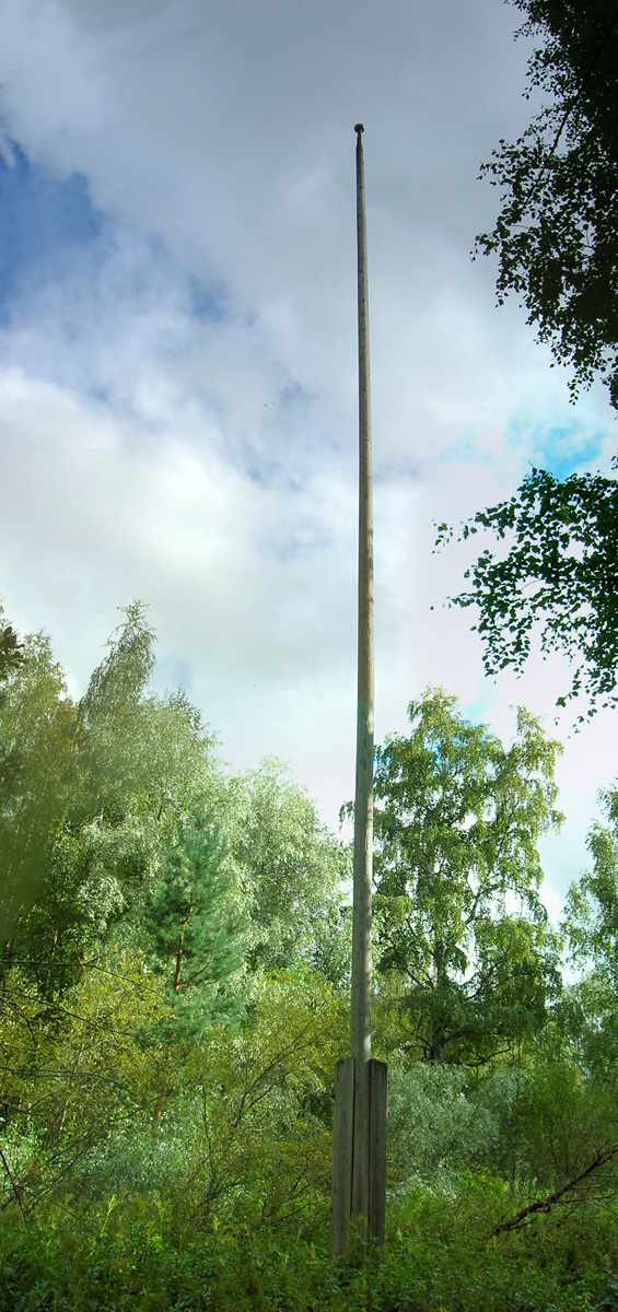 picture of former women's prison in Ilmajoki, flagpole